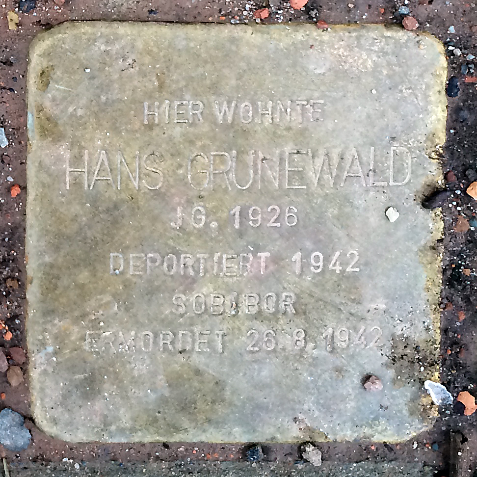 Stolperstein - Stumbling Stone in Nettetal, NRW, Germany Hans Grunewald